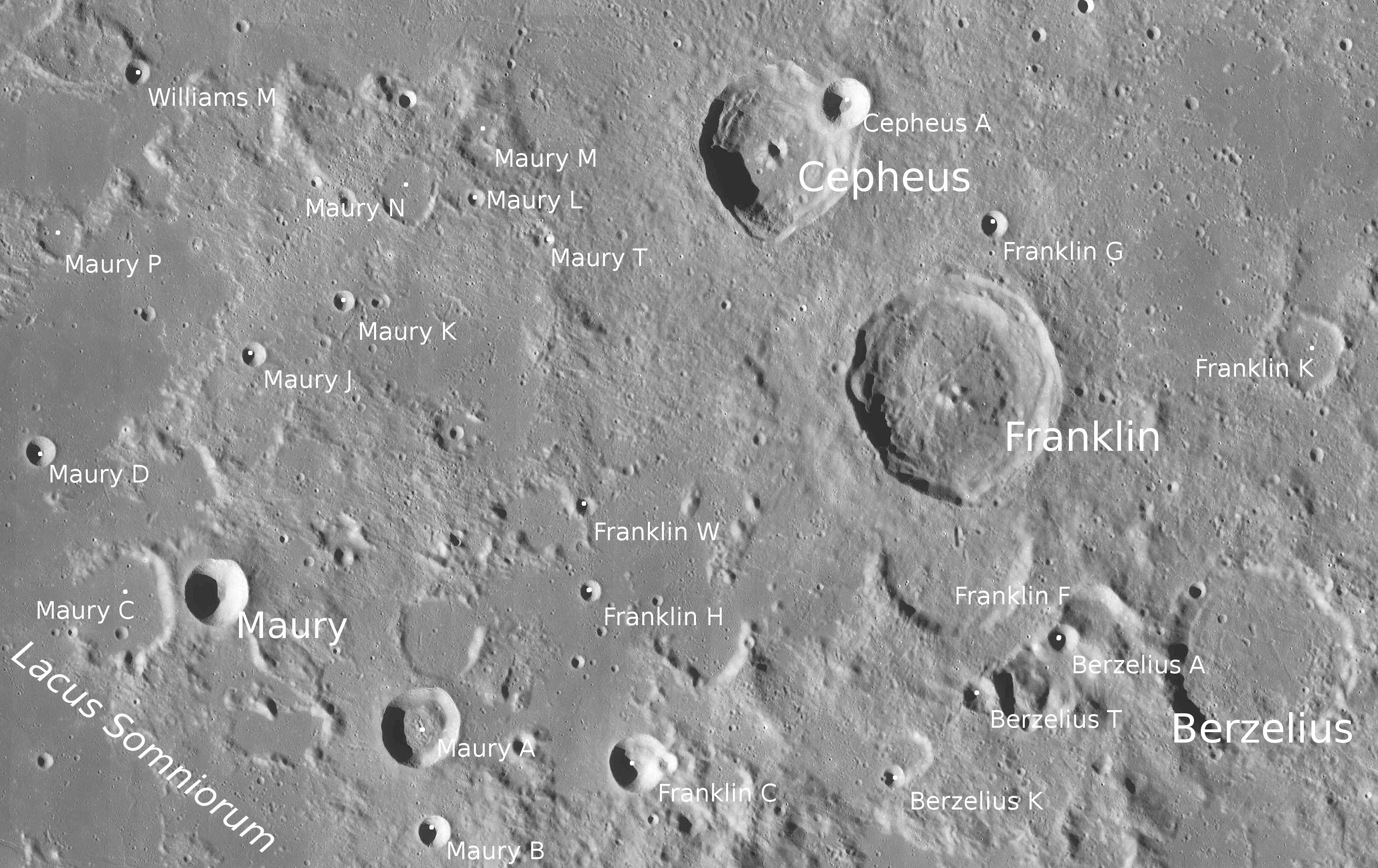 Craters Maury, Cepheus, Franklin and Berzelius with satellite features (detail of LRO - WAC global moon mosaic; Mercator projection)